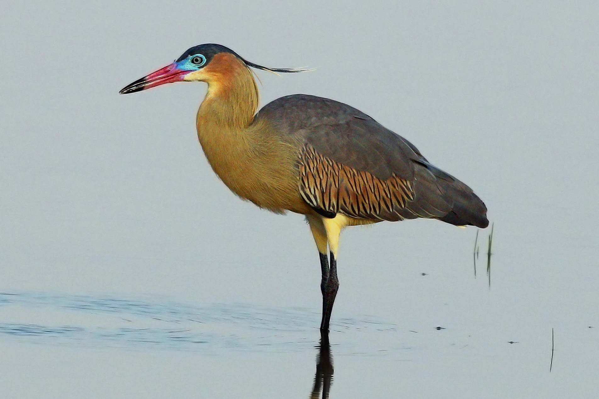 Whistling heron (Syrigma sibilatrix), the Pantanal, Brazil